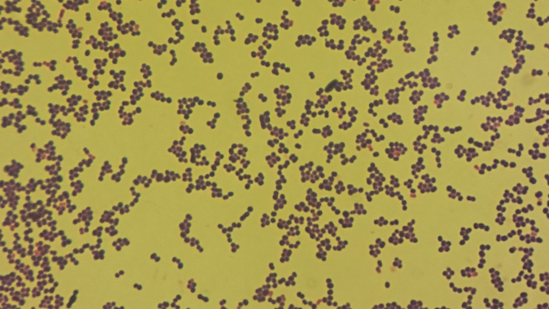 Microscopy of Aerococcus urinae with gram stain, showing gram positive cocci. More details in source article: Mattila J, Häggström M (2015). "Images of Aerococcus urinae". WikiJournal of Medicine 2 (1).